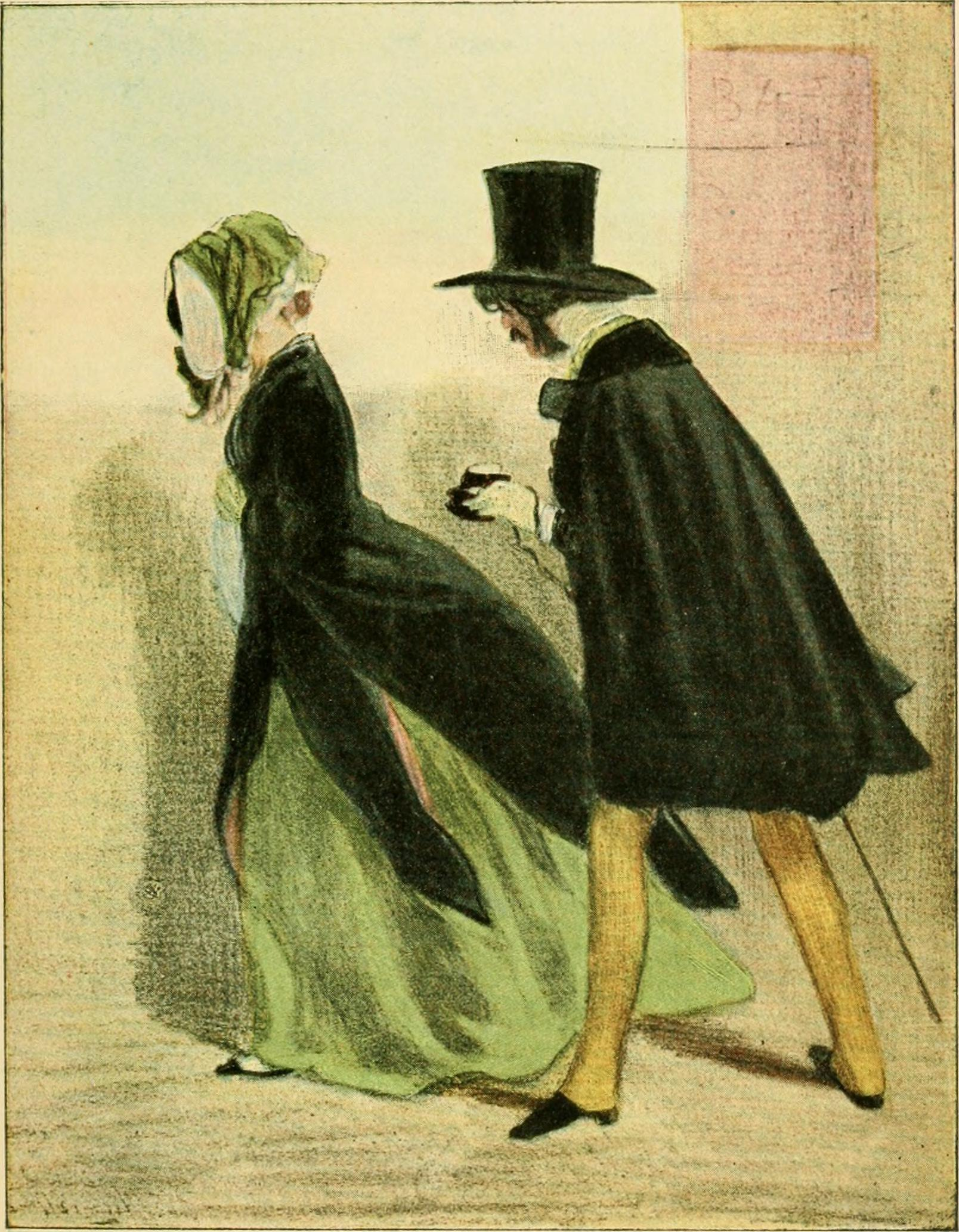 Les Lorettes, par Paul Gavarni, 1842 Title: Skämtbilden och dess historia i konsten Year: 1910 (1910s) Authors: Laurin, Carl Gustaf Johannes, 1868-1940 Subjects: Caricature -- History Caricature and cartoons, European -- History Wit and humor, Pictorial -- History Publisher: Stockholm : P. A. Norstedt Text Appearing Before Image: sorgsen. Jag leds ihjäl, allt underdet jag ideligen arbetar.» Dessa sorgliga tankar hindrade emeller-tid ej den unge mannen att göra teckningar och planer tillmaskeraddräktens förnyelse, och han fick af en förläggare be-ställning på en del nationaldräktsteckningar, som sedan skullegraveras. Är 1828 kom Chevallier tillbaka till Paris. Under sin från-varo hade han utvecklat sitt sinne för det pittoreska i dräkter,seder och bruk, en ny egenskap hos 1800-talet. och som hantillskrifver Walter Scotts inflytande. Nu tillkommer emellertidett nytt moment. Konstnären upptäcker det pittoreska i stor-stadslifvet. Vältaligt meddelar han liksom i ett manifest den 20november 1828, hur han känner sig som konstnär inför Paris:»Hvad man måste vara tom eller utnött för att ha tråkigt i ensamling af människor! Sätt du näsan i ditt vindsfönster, så ser dudenna mängd tak och röken som stiger upp från dem! Blås utdin lampa, dra på dig byxorna — gå in till höger och 194 Text Appearing After Image: 156. LKs Lorettes. Madame! madame! Un billet de bal pour un baiser de vous, madame I Moins cher quau bureau ! •Litografi af (Javarni. 1842. * Madame, madame! En inträdesbiljelt till maskeradbalen för en kyss!Del blir billigare för er än vid kassan. 195 FRANKRIKE UNDER iSoo-TALErS FÖRRA HÄLFT